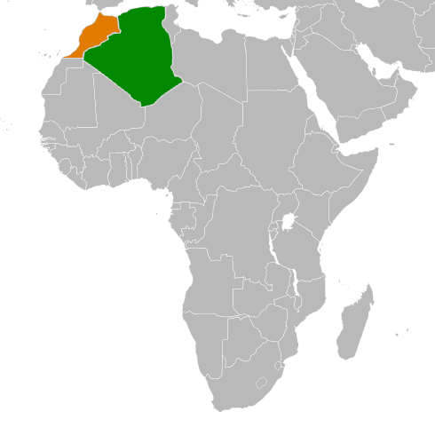 Locator map showing Algeria and Morocco